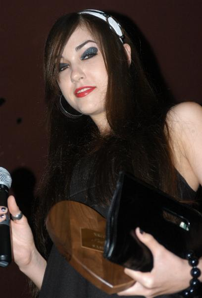 April 5 2007: XRCO Awards 2007.